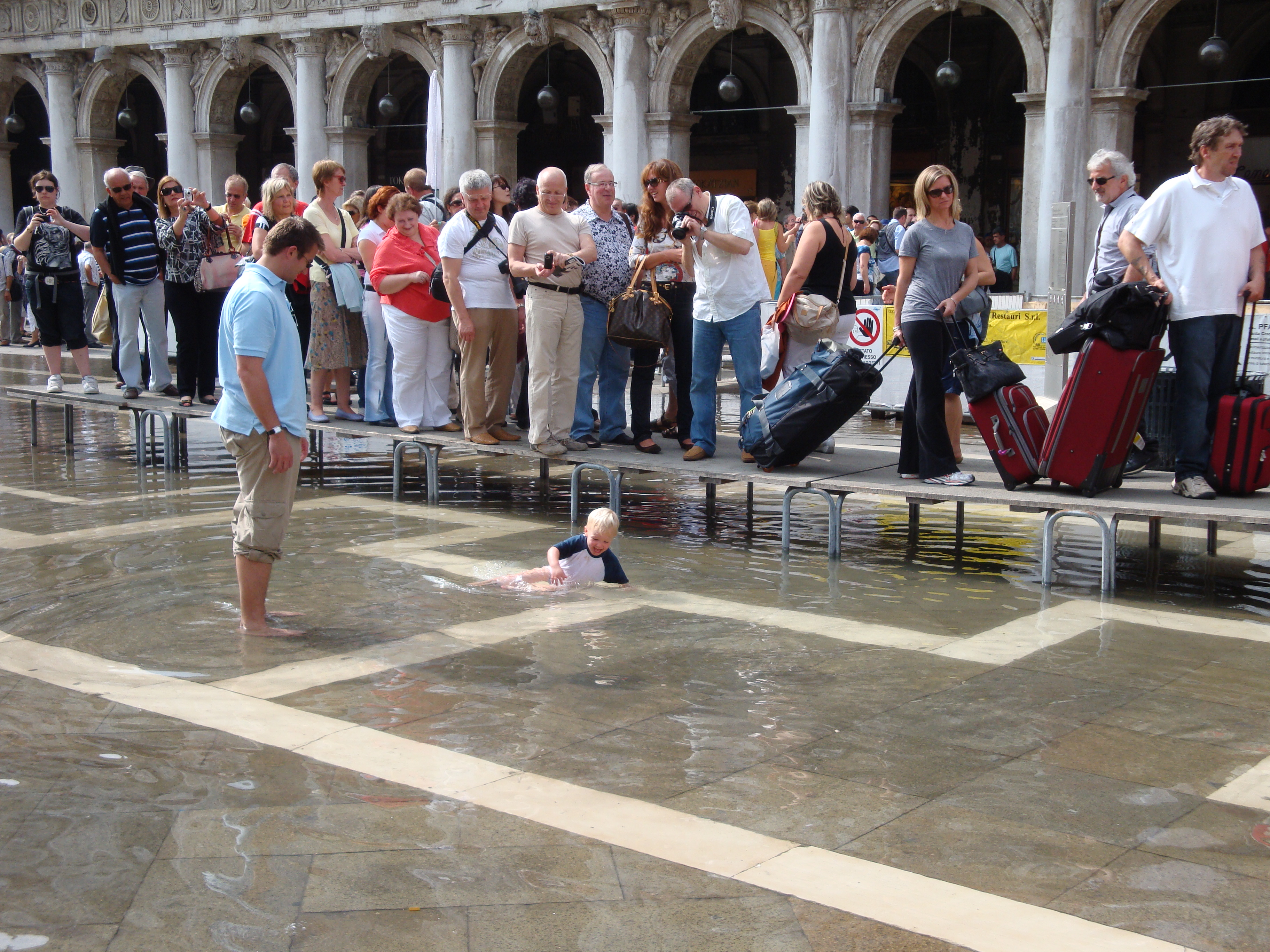 Flood in Venice in september 2009: On the way to Saint Mark's Square